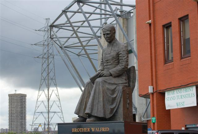 Statue at Celtic Park